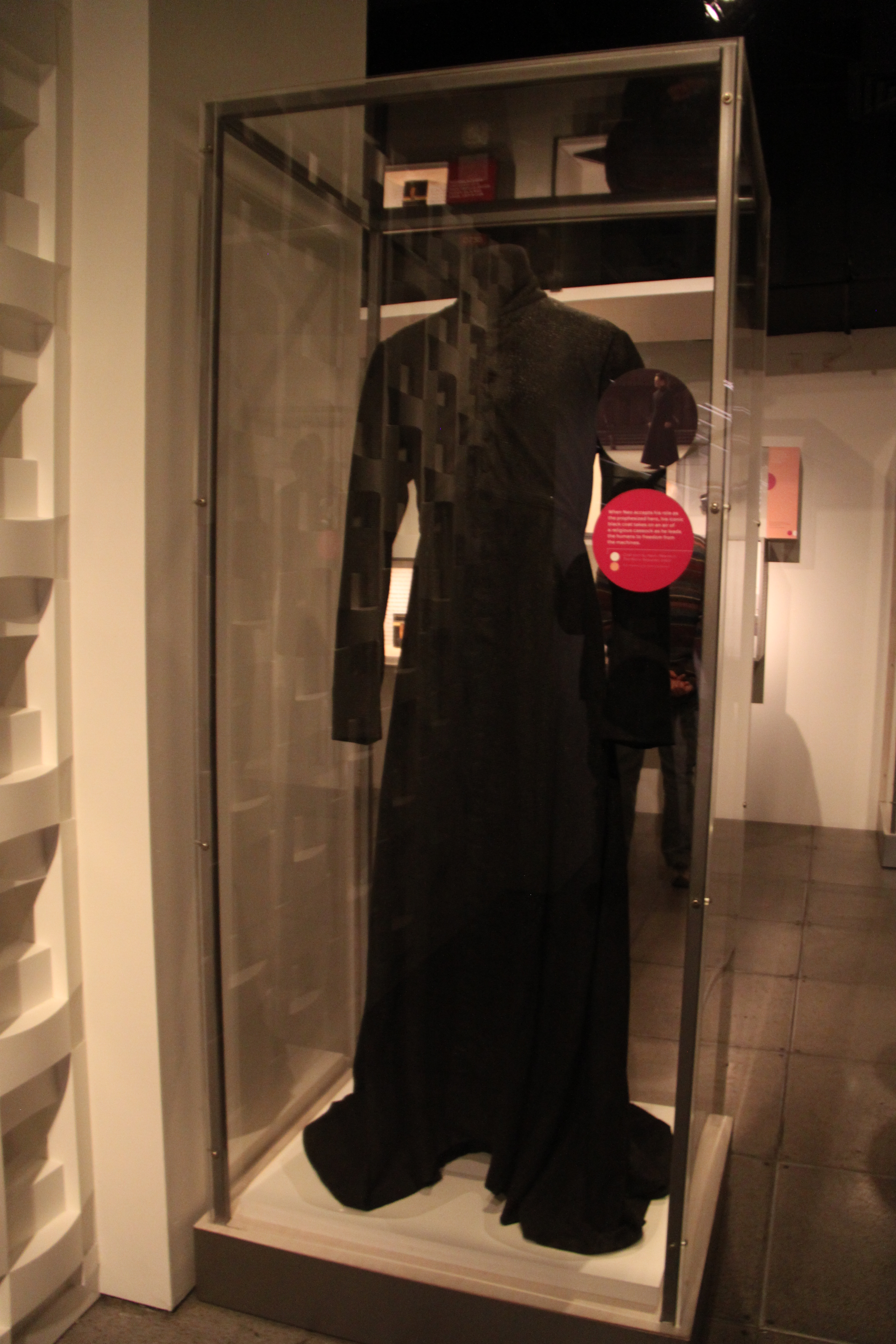 Black coat worn by Neo (played by Keanu Reeves) in the 2003 film The Matrix Reloaded, Icons of Science Fiction exhibit, Experience Music Project/Science Fiction Hall of Fame, Seattle.